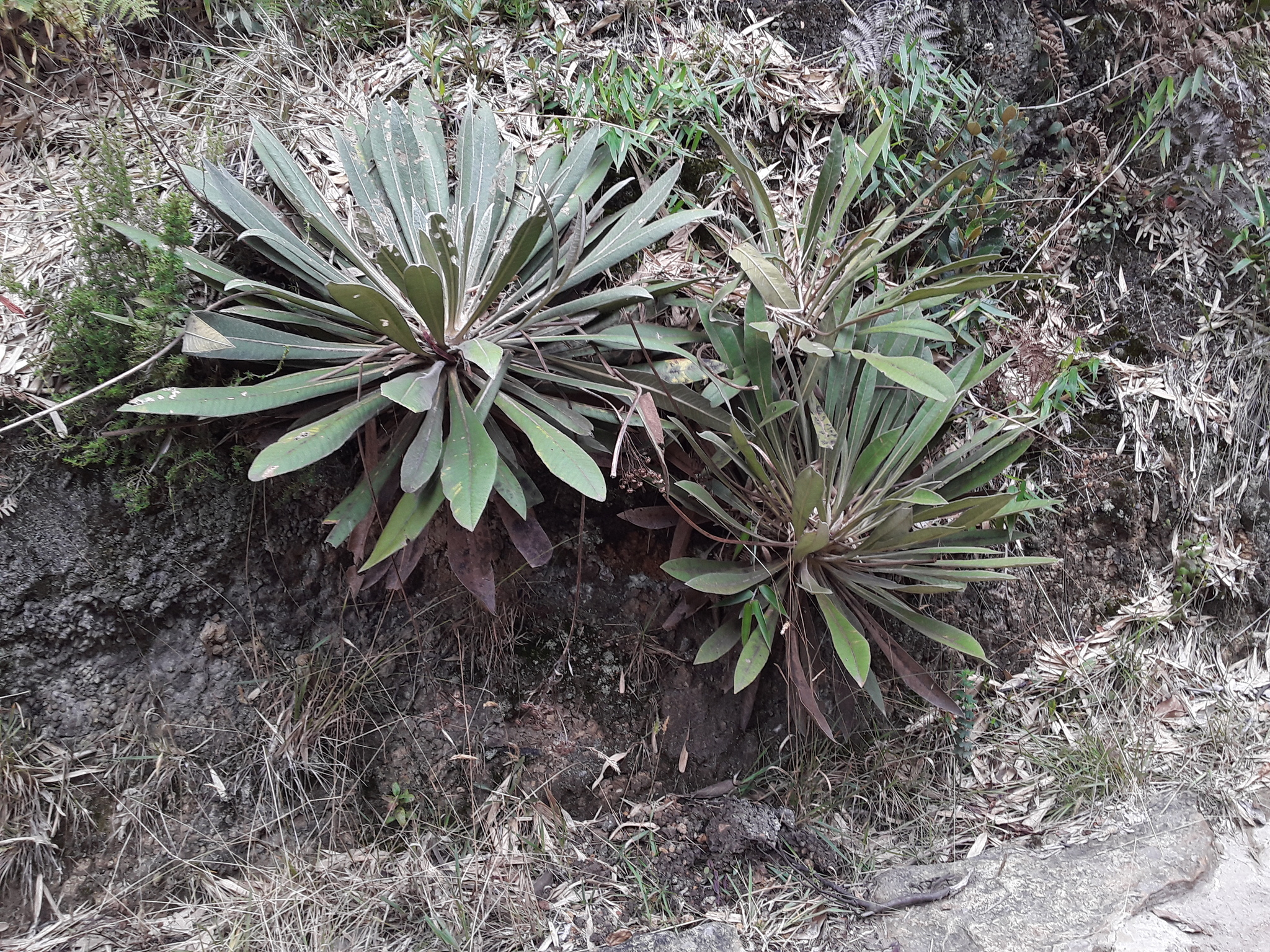 Espeletiopsis corymbosa. Species of plant.